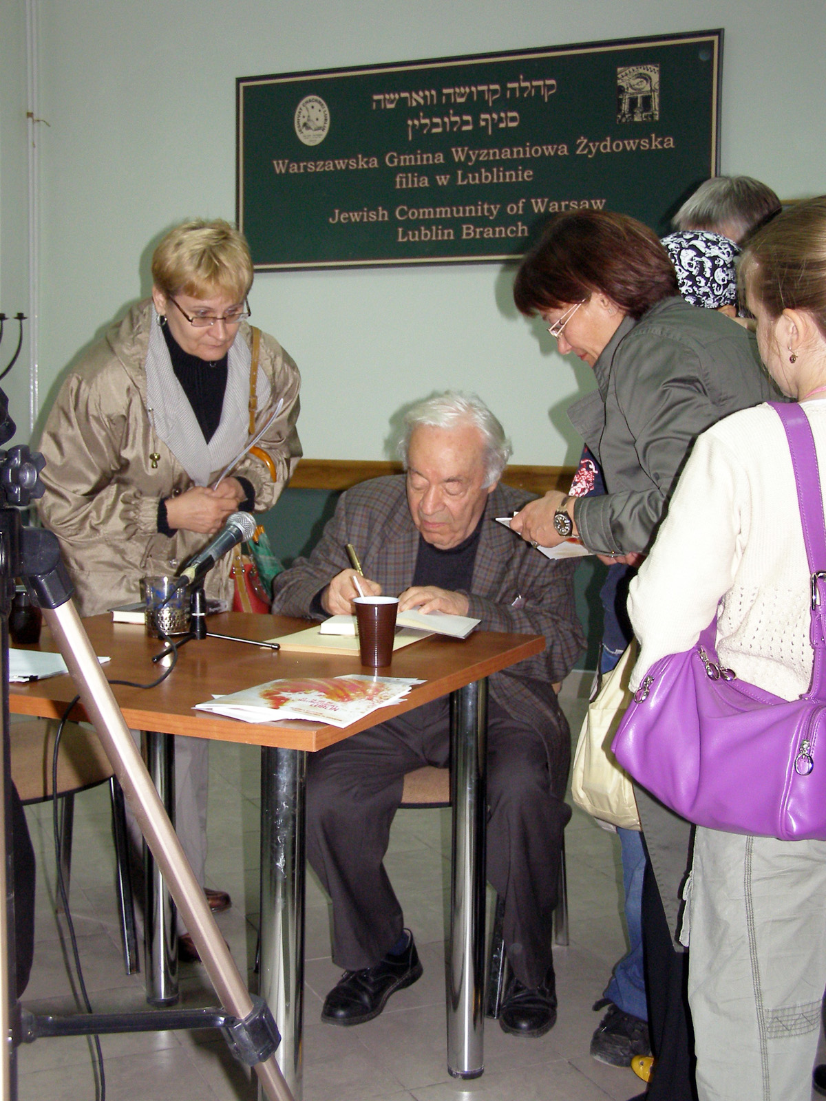 European Heritage Days 2008: „Roots of Tradition. From Home to Homeland”.